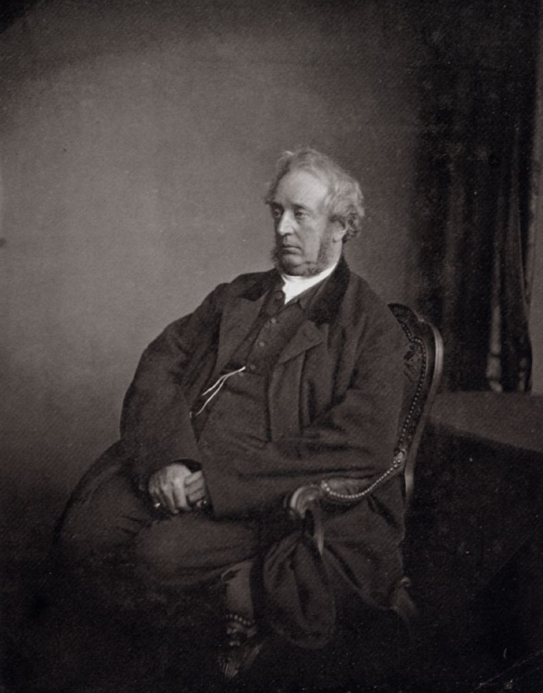 Psychiatrist and photographer Dr. Hugh Peach Diamond, photographed by his friend Henry Peach Robinson in 1869.